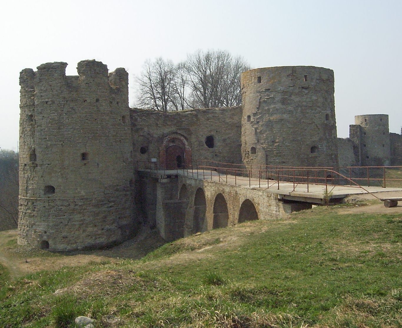 Koporye fortress